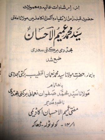 A book written on the Biography of Mufti Amimul Ehasan